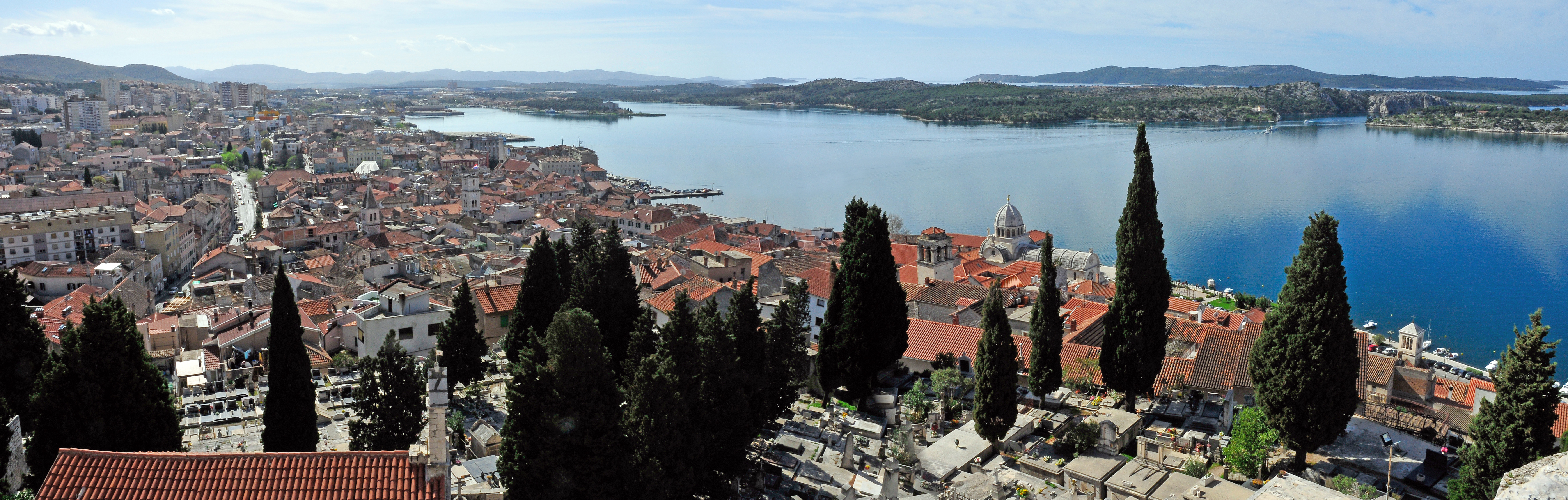 Panoramic from the St. Anne's cemetery. Sibenik, Dalmatia, Croatia